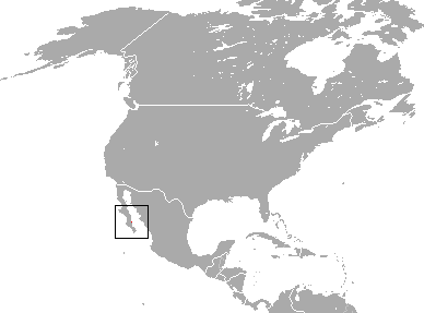 San Jose Brush Rabbit (Sylvilagus mansuetus) range